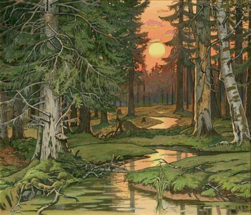 Fairy Forest at Sunset by Ivan Bilibin.